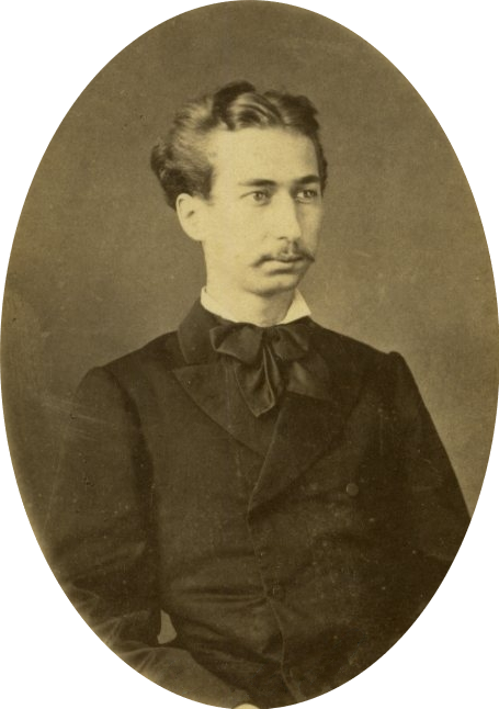 Portrait photograph of Manuel Rebelo Borges de Castro da Câmara Lemos, 1st Count of Santa Catarina (1849-1917)